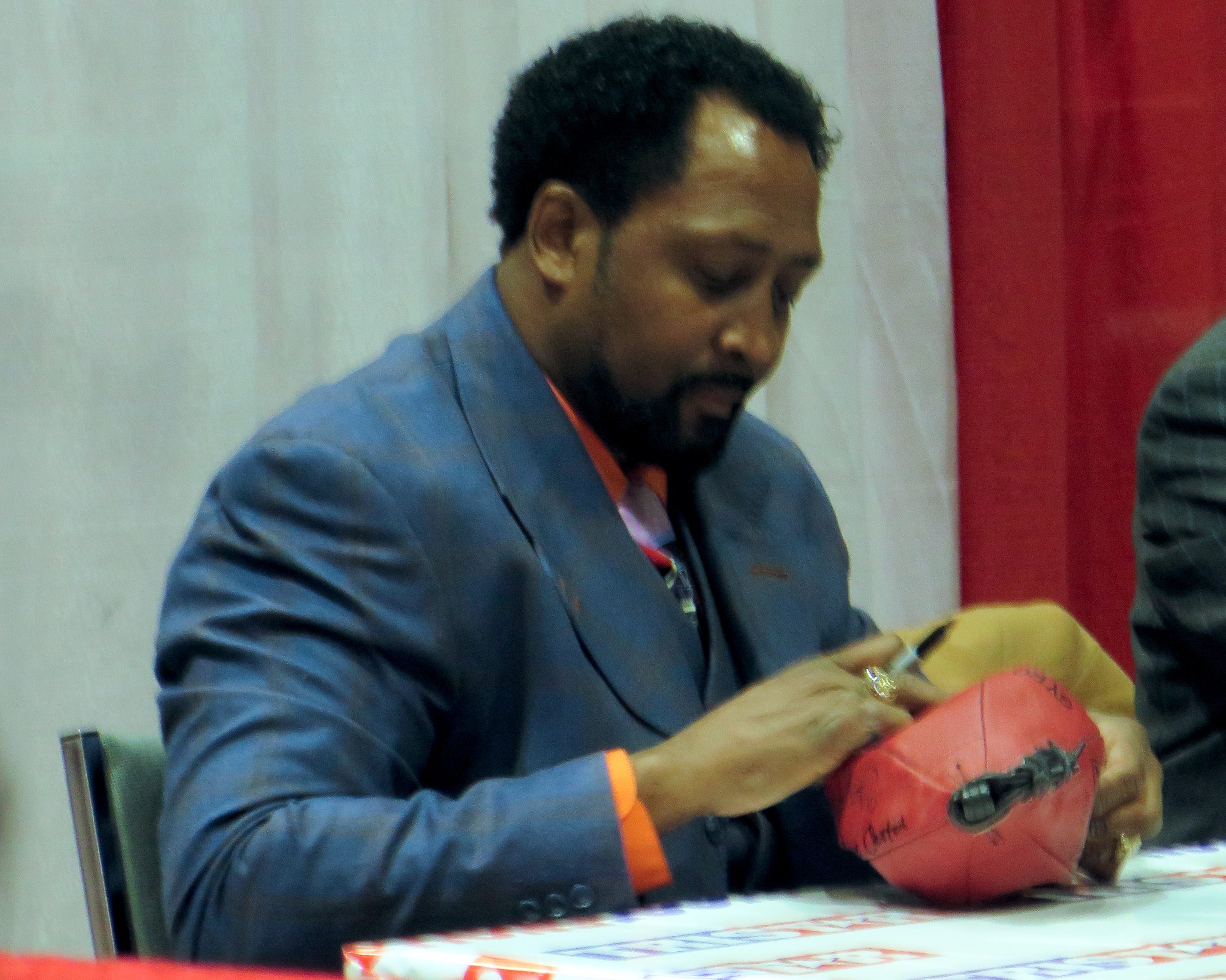 Thomas Hearns signs autographs at a Tristar Productions sports collectors show in Houston in January 2014.